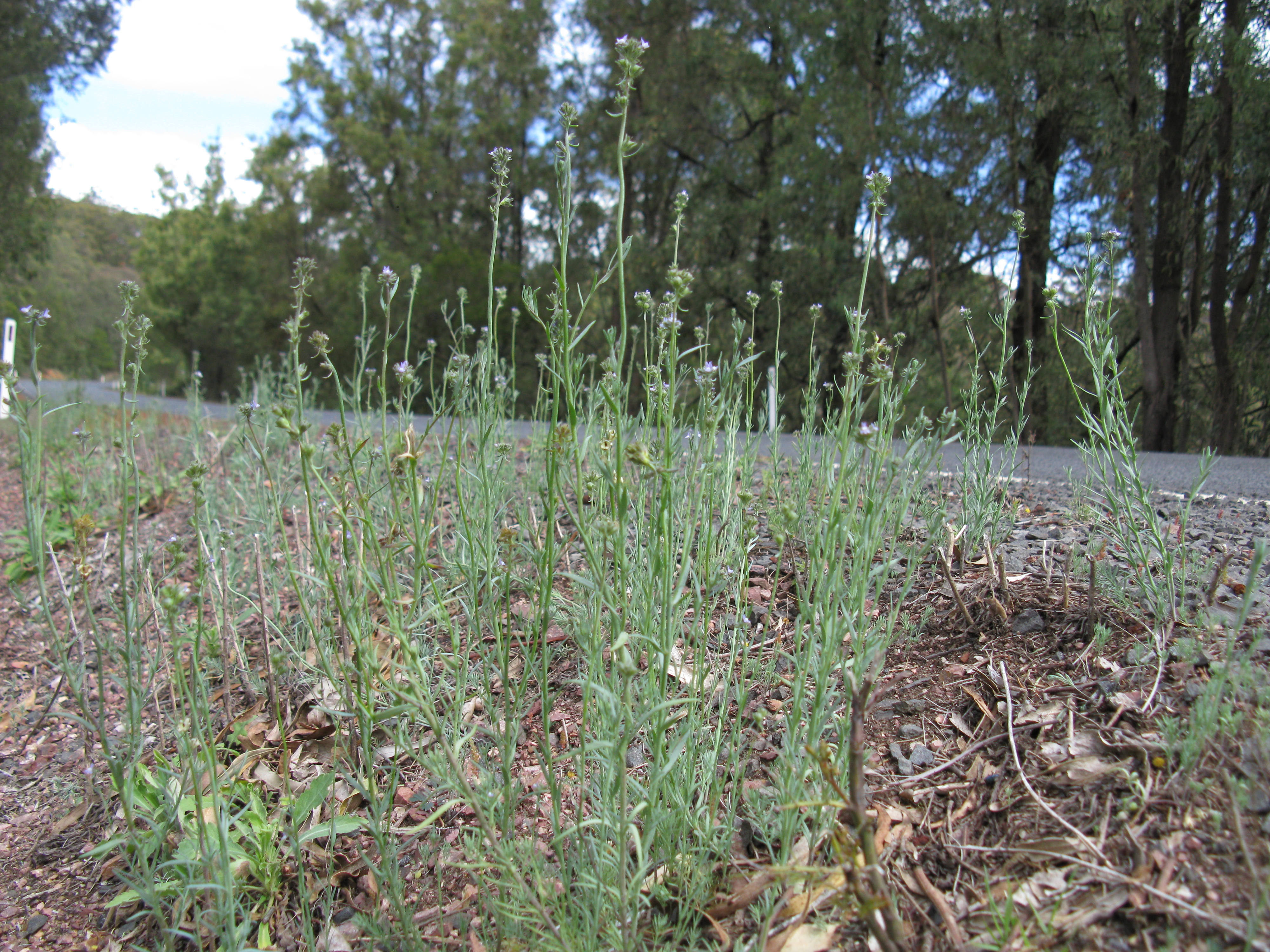 Introduced, cool season, annual erect, glaucous, simple or much-branched herb, 10–40 cm tall; hairless except for glandular-hairy sepals. Leaves are linear to narrow-elliptic and 0.4–3.5 cm long; whorled below, but alternate up the stem. Flowerheads are many-flowered spikes to racemes; at first dense then elongating in fruit. Flowers are nearly sessile, but pedicels are 1–2 mm in fruit. Sepals are 2 mm long. Petals are 2-lipped, 3–4 mm long, pale blue to purple, palate at least sometimes white, and with a spur 1.5–3 mm long and curved; upper lip pointed outwards, lower lip longest, recurved. Fruit are rounded capsules 3–4 mm long. Flowering is in spring. Found chiefly in disturbed sites along roadsides and railway lines, or in pasture, and in forest and woodland.